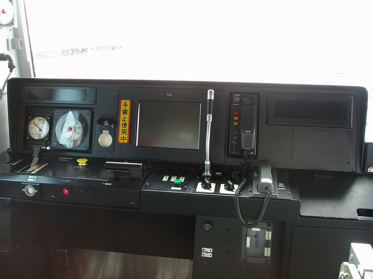 Cockpit of Odakyu Electric Railway Company, EMU Type 4000